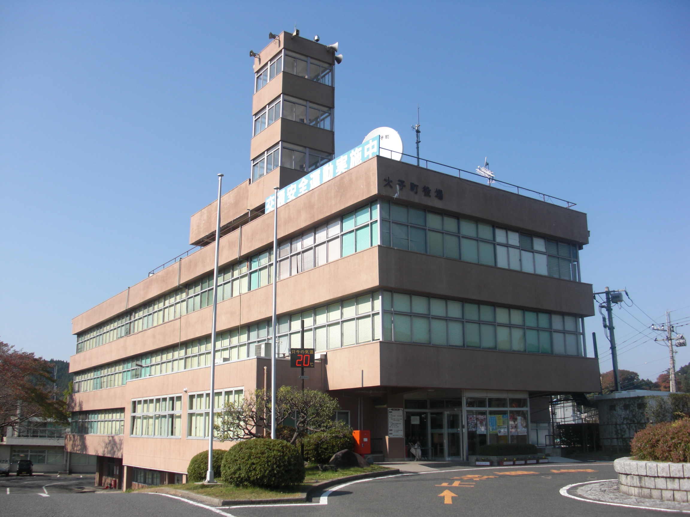 This is the Daigo Town Office Building, which is located in Daigo, Ibaraki, Japan.